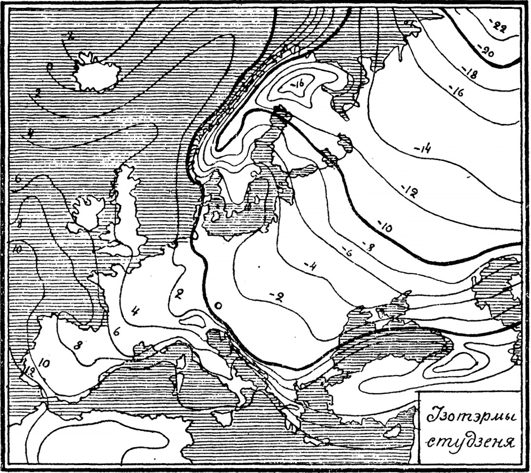 Illustration from the book "Geography of Europe. Preface & Survey"